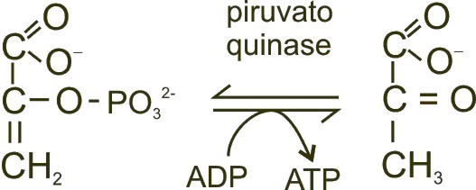 pyruvate dehydrogenase reacction - glygolysis jpg